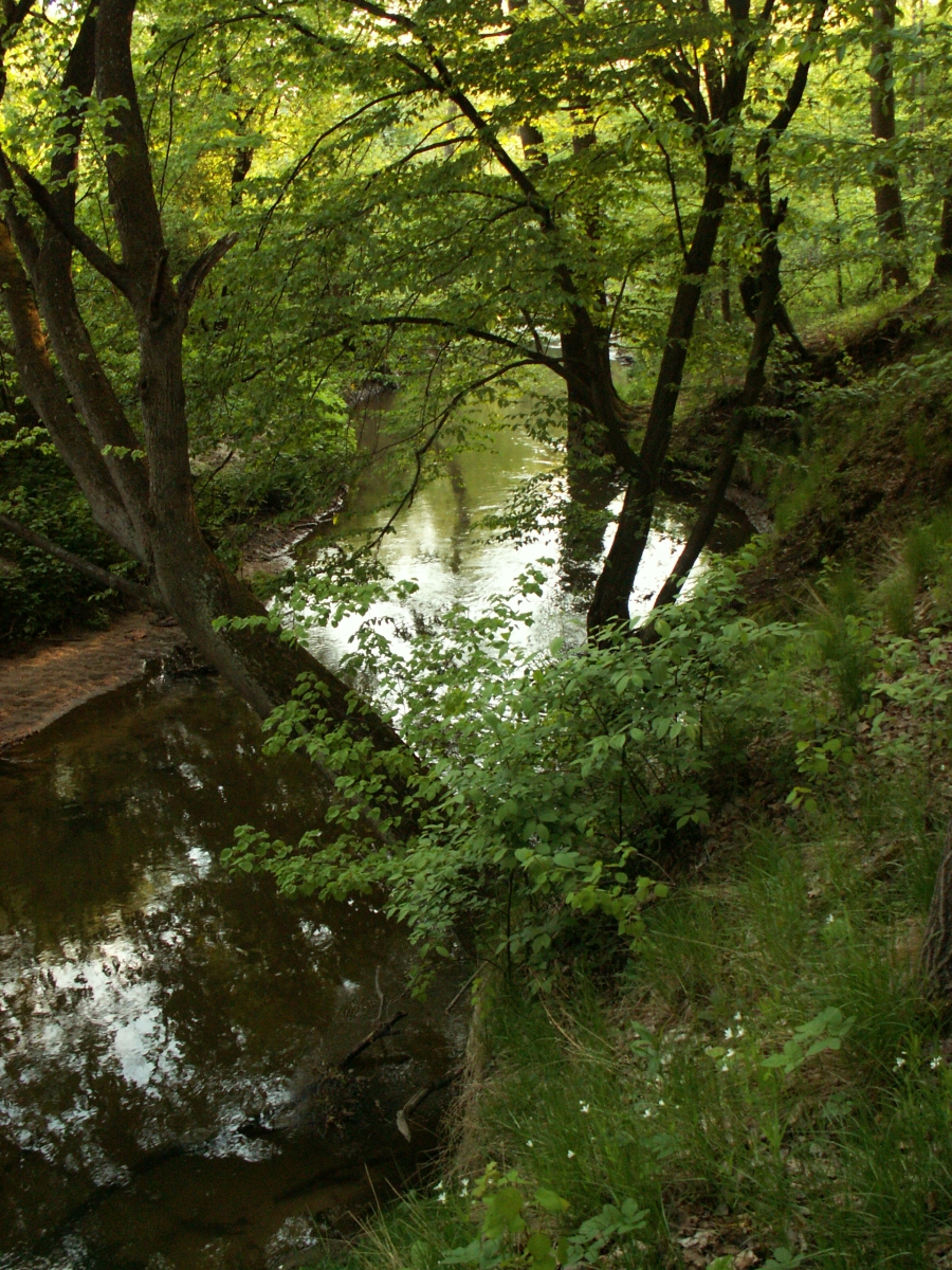 River Sanna near Zaklików, Podkarpacie, Poland.